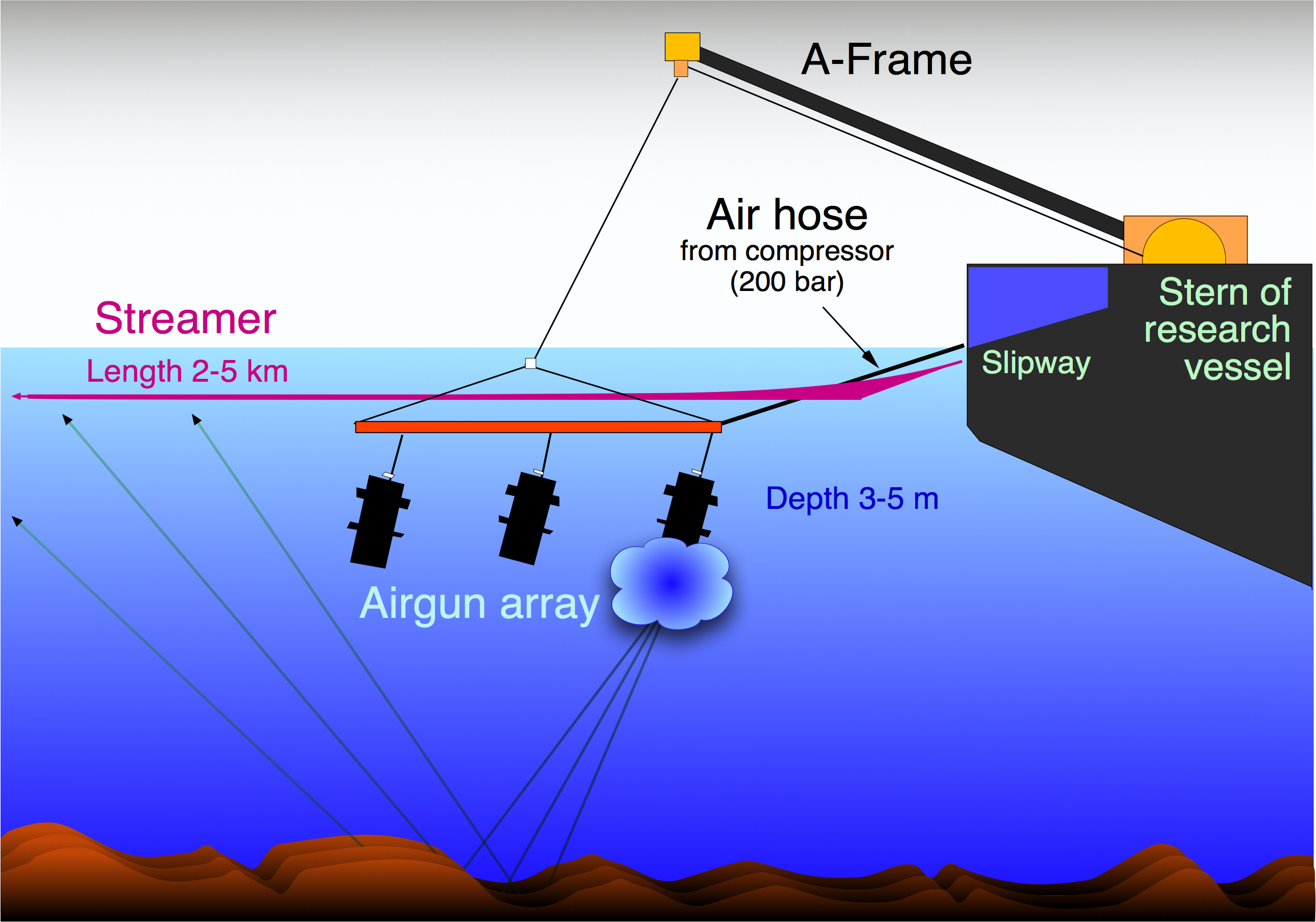 In marine seismic one or an array of airguns is used to produce sound waves by releasing air under a pressure of 200 bar about every minute. The waves are reflected by the various sediment and rock layers in the ground. The echo is recorded by a streamer which is a some hundred to thousand meter long hose, filled with hundreds of hydrophones in oil, towed to the research vessel.